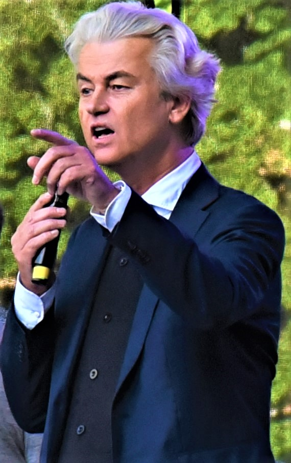 Geert Wilders, Dutch politician